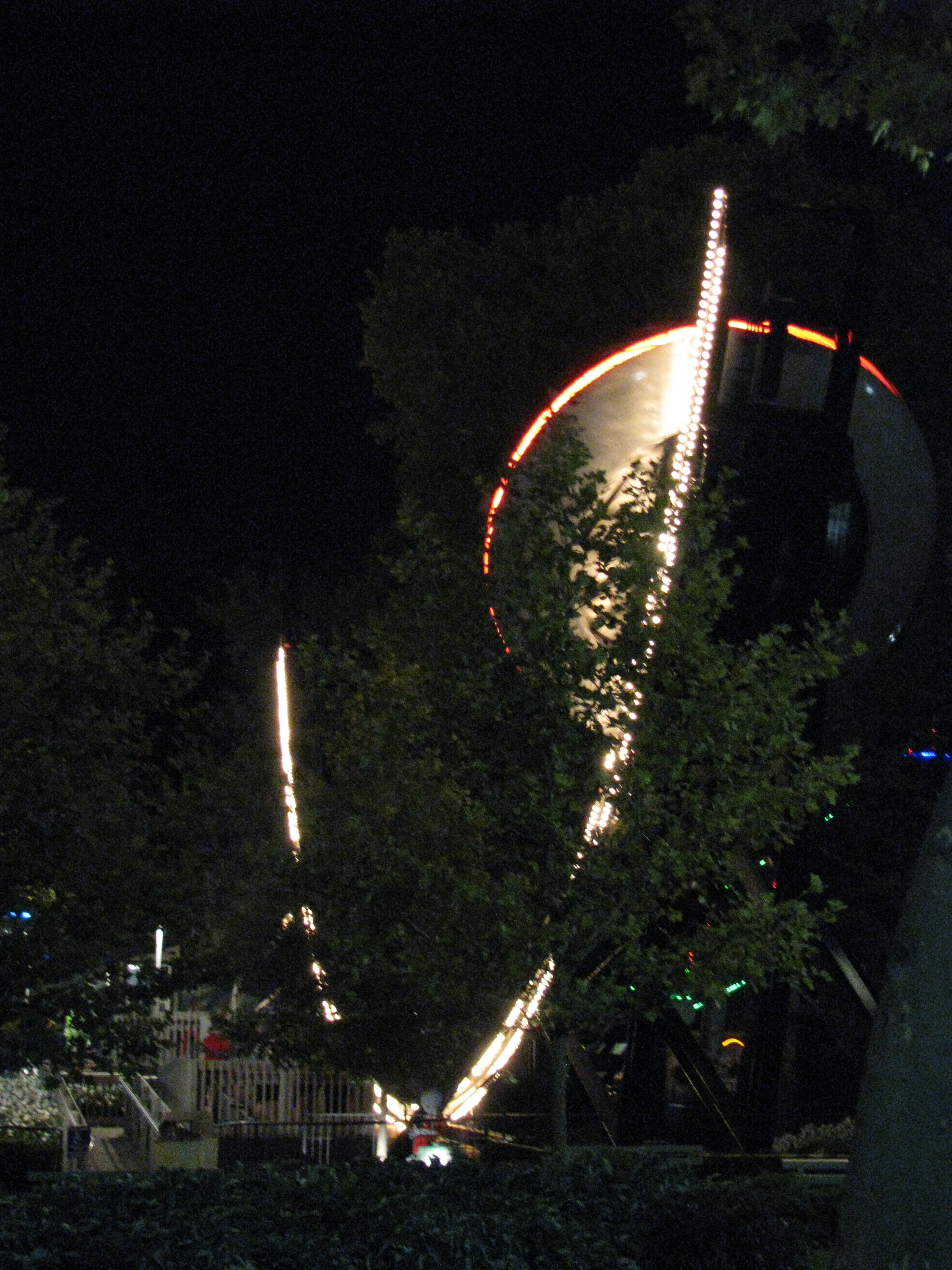 Kennywood's Cosmic Chaos ride at night